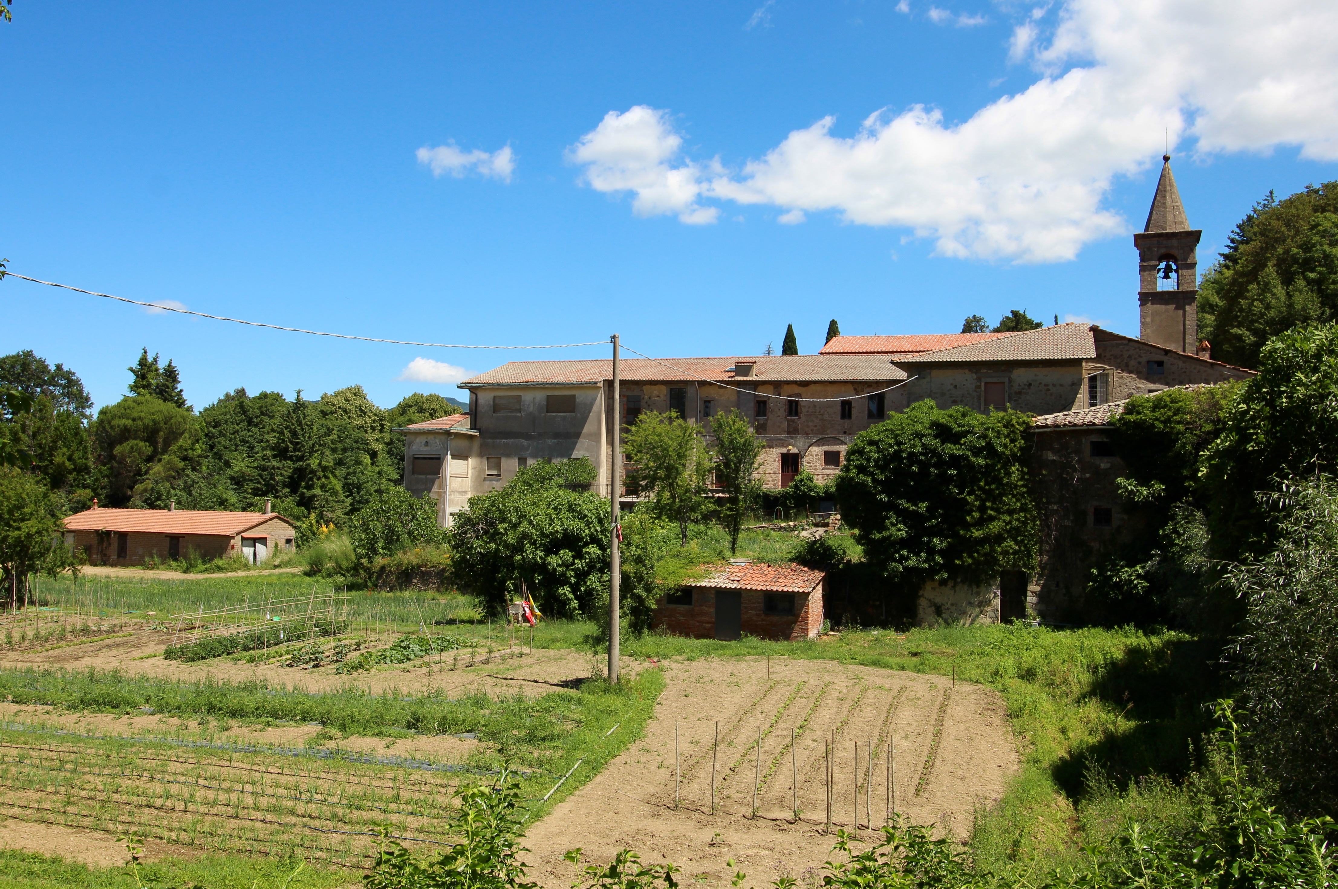 Church Santissima Trinità, Selva, hamlet of Santa Fiora, Province of Grosseto, Tuscany, Italy